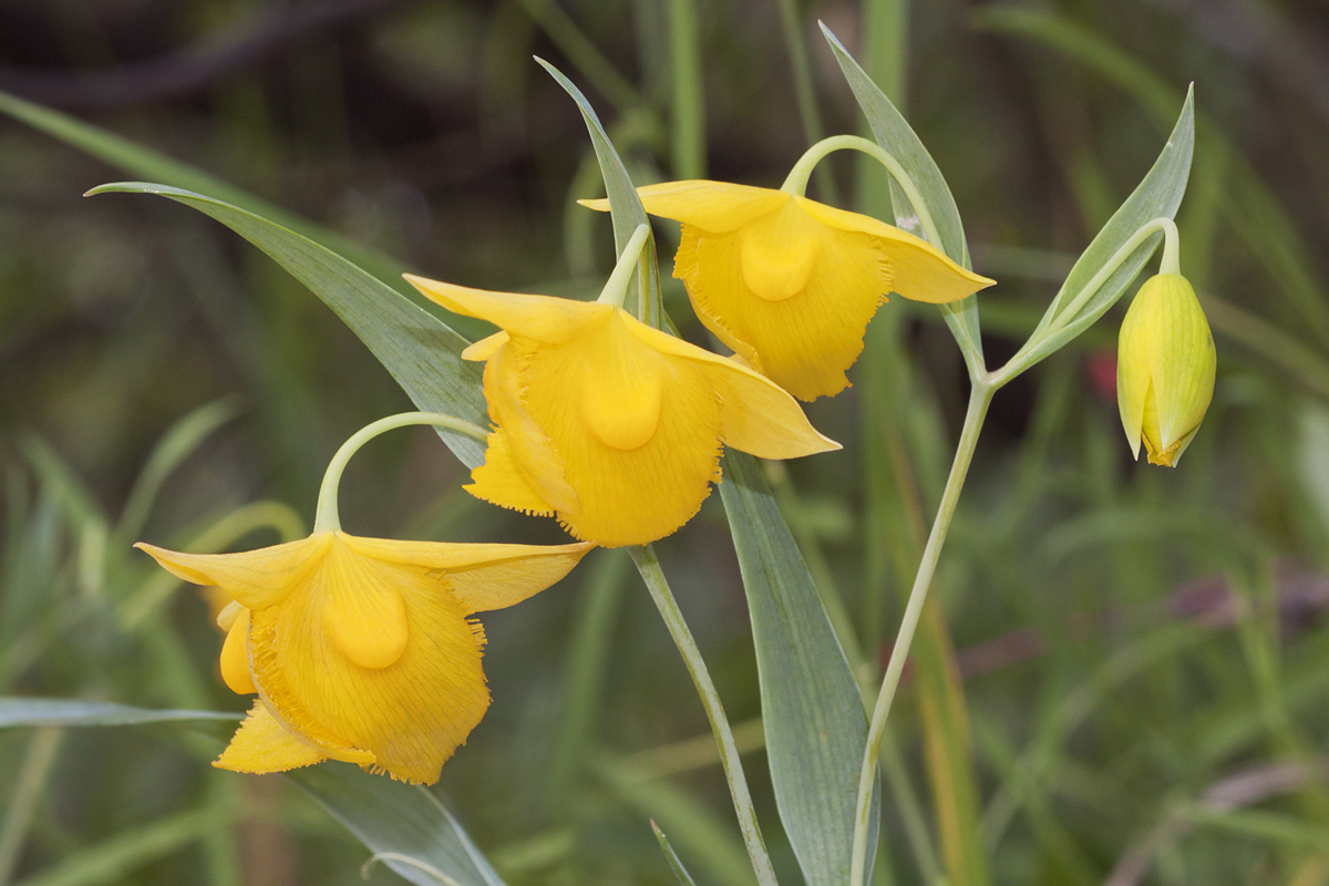 Calochortus amabilis. Petrified Forest Rd., Sonoma Co., CA, USA. June 2